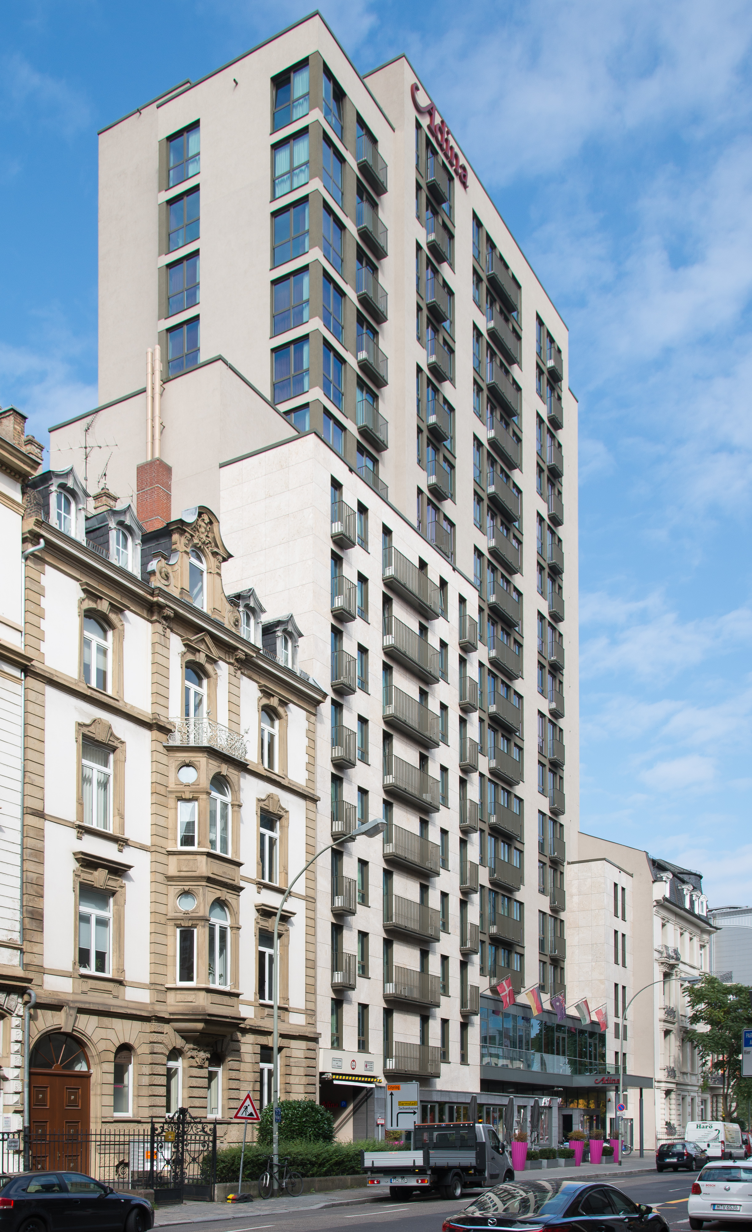 Frankfurt am Main, Wilhelm-Leuschner-Straße 4-6, Adina Apartment Hotel (as seen from South-West)